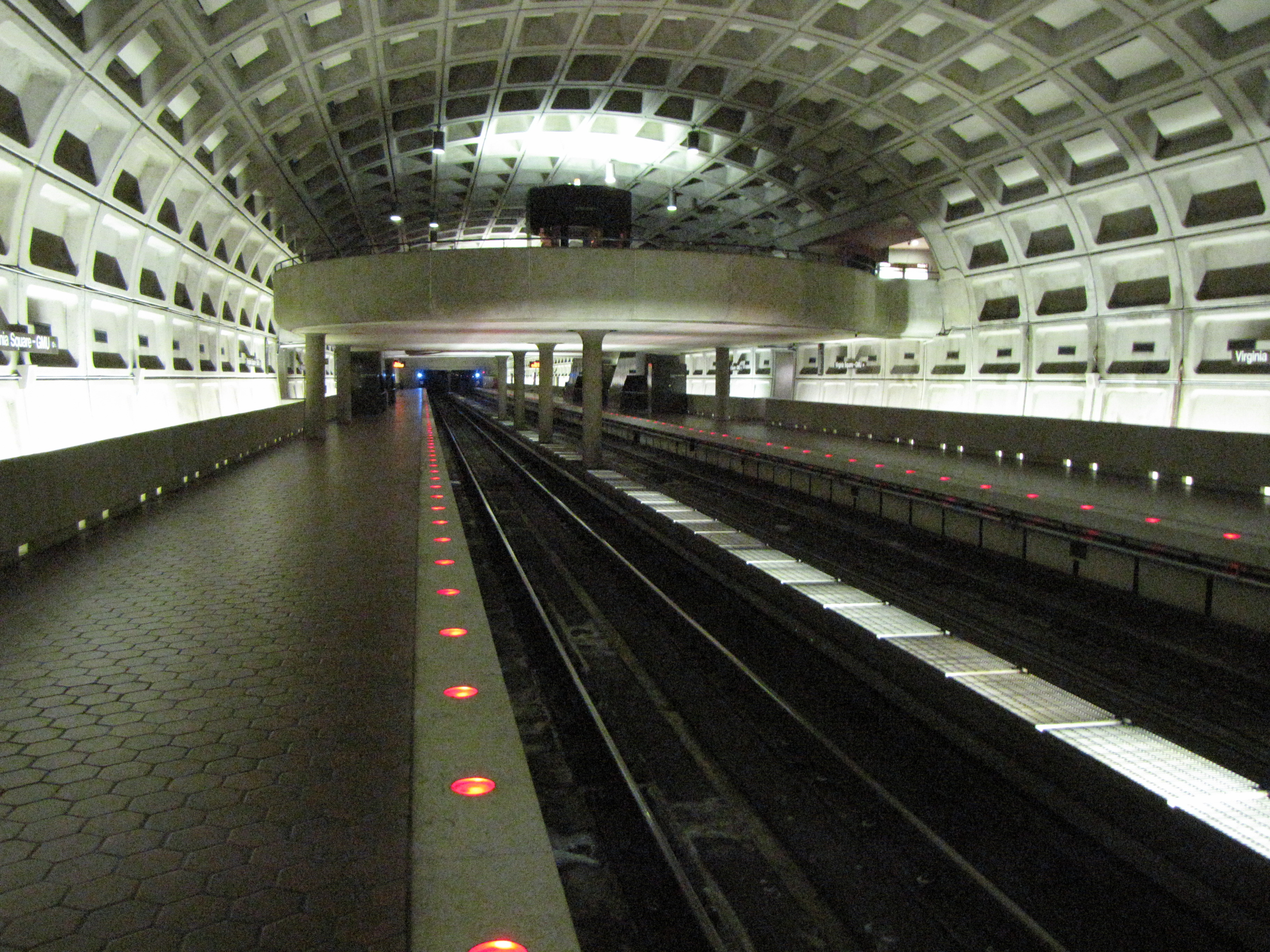 View from outbound end of Virginia Sq-GMU station, on the Orange Line of the Washington Metro.